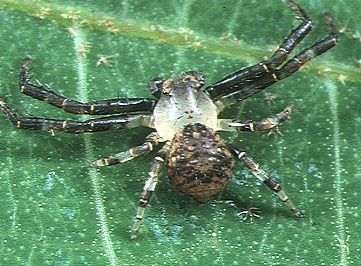 male Takachihoa truciformis from Okinawa.